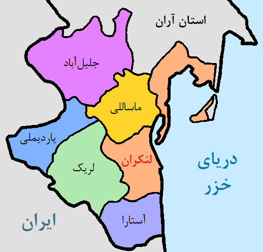 Lankaran Region